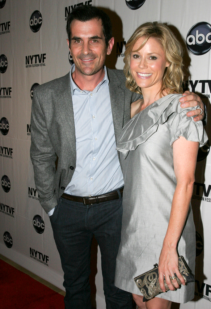 Ty Burrell and Julie Bowen